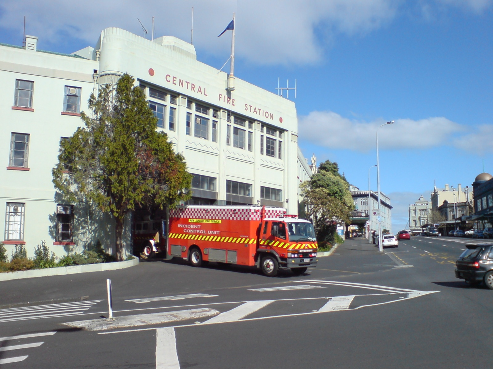 The Incident Control Unit (command vehicle) of the Auckland firefighting service backing into its station in Pitt Street, Auckland City, New Zealand.